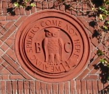 Photograph of masonry owl and inscription above main entrance at 624 Taylor, San Francisco, CA